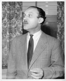 Italian author Guido Piovene (1907-1974)